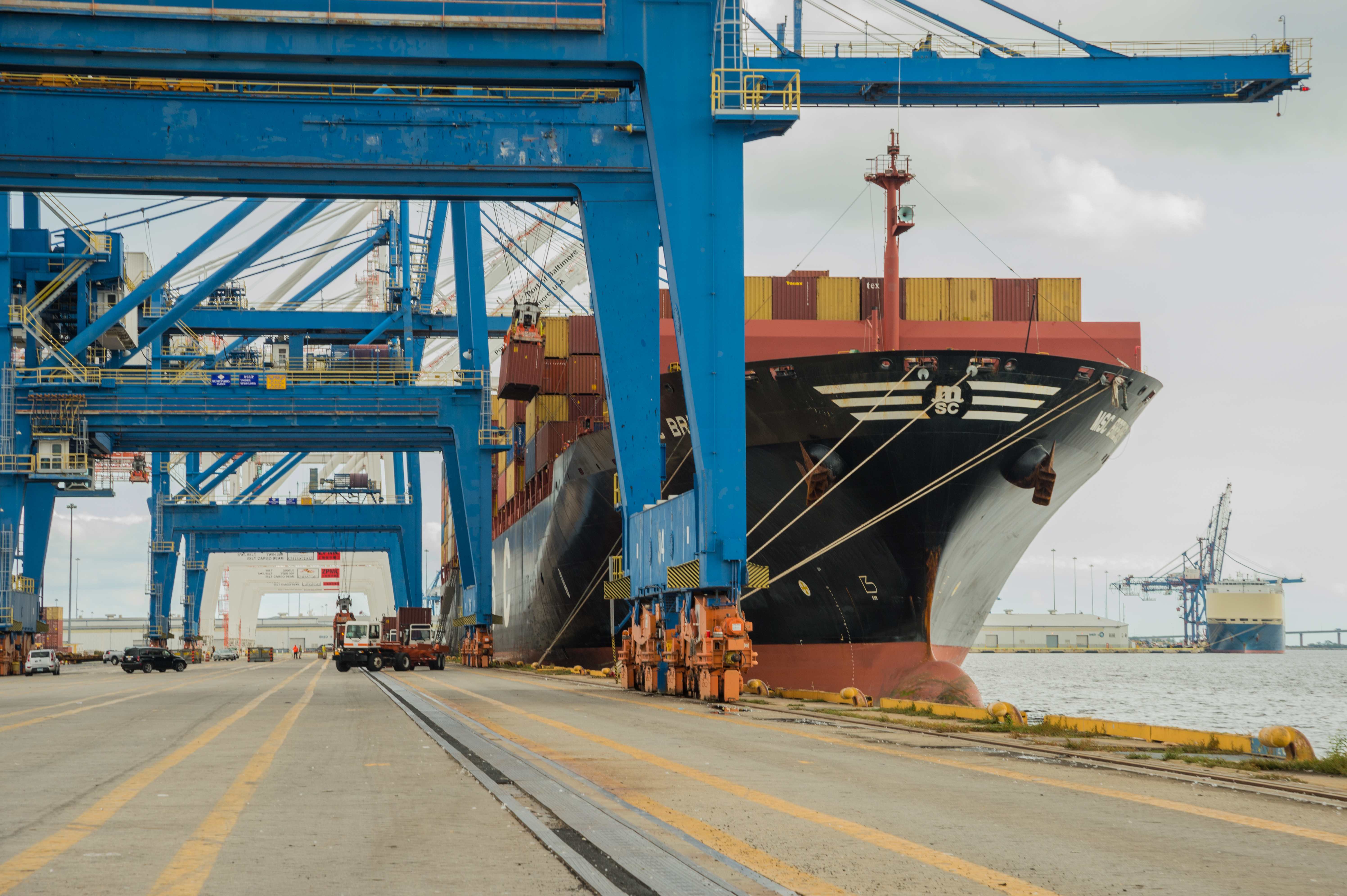 The Port of Baltimore in Baltimore MD on Thursday, Oct. 2, 2014. The Port of Baltimore is one of many ports in the U.S. involved in agricultural trade. U.S. and global trade are greatly affected by the growth and stability of world markets, including changes in world population, economic growth, and income. Other factors affecting agricultural trade are global supplies and prices, changes in exchange rates, government support for agriculture, and trade protection policies. Diversity in consumers' food choices and changing relative exchange rates, make U.S. goods relatively more/less expensive in international markets and import goods relatively less/more expensive. USDA photo by Bob Nichols.